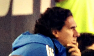 Mauro Biello, head coach of the Montreal Impact watches the team play against the New England Revolution during a Major League Soccer (MLS) game in Foxborough, Massachusetts, on 8 September 2013.